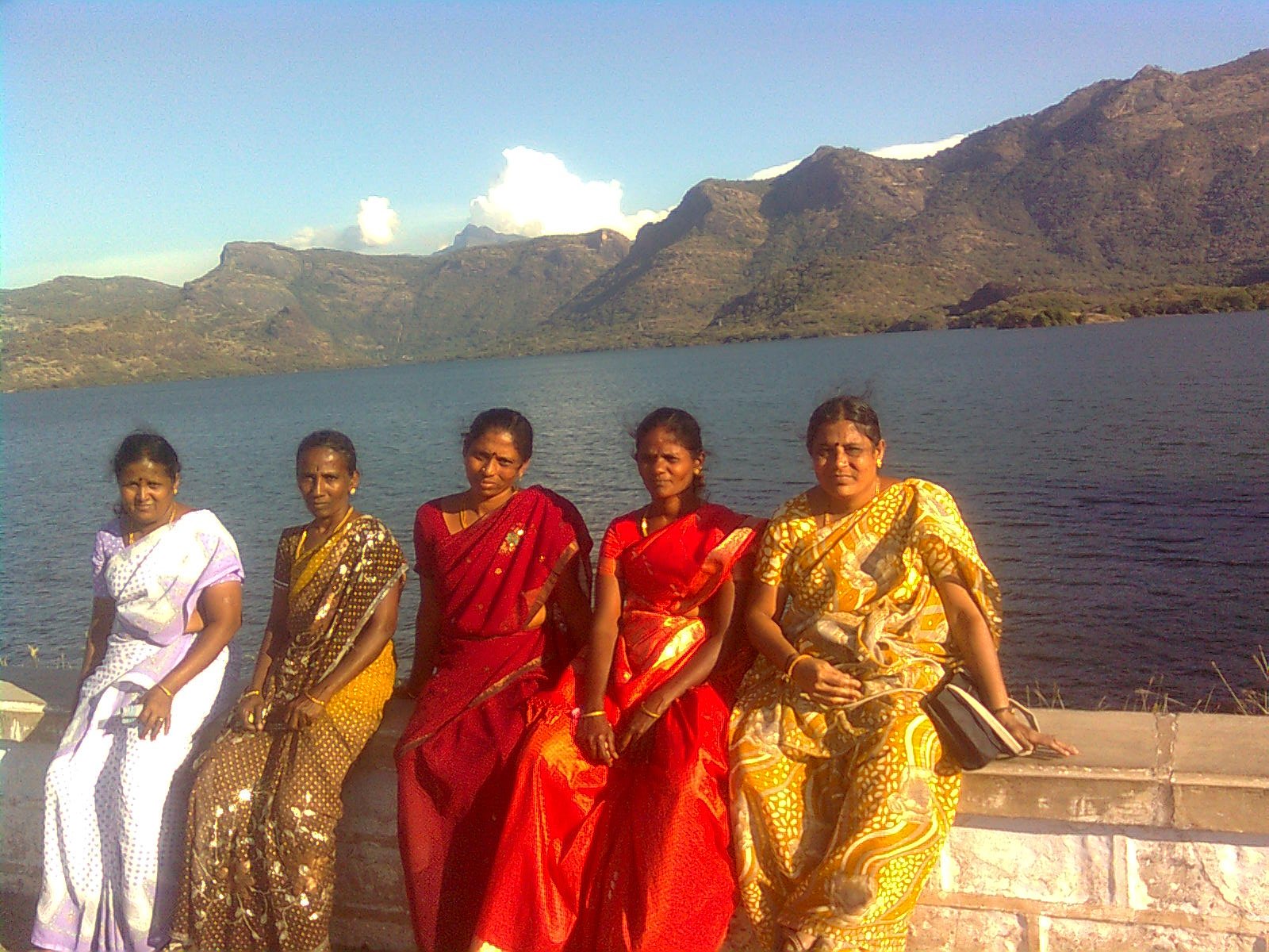 a group like to pose